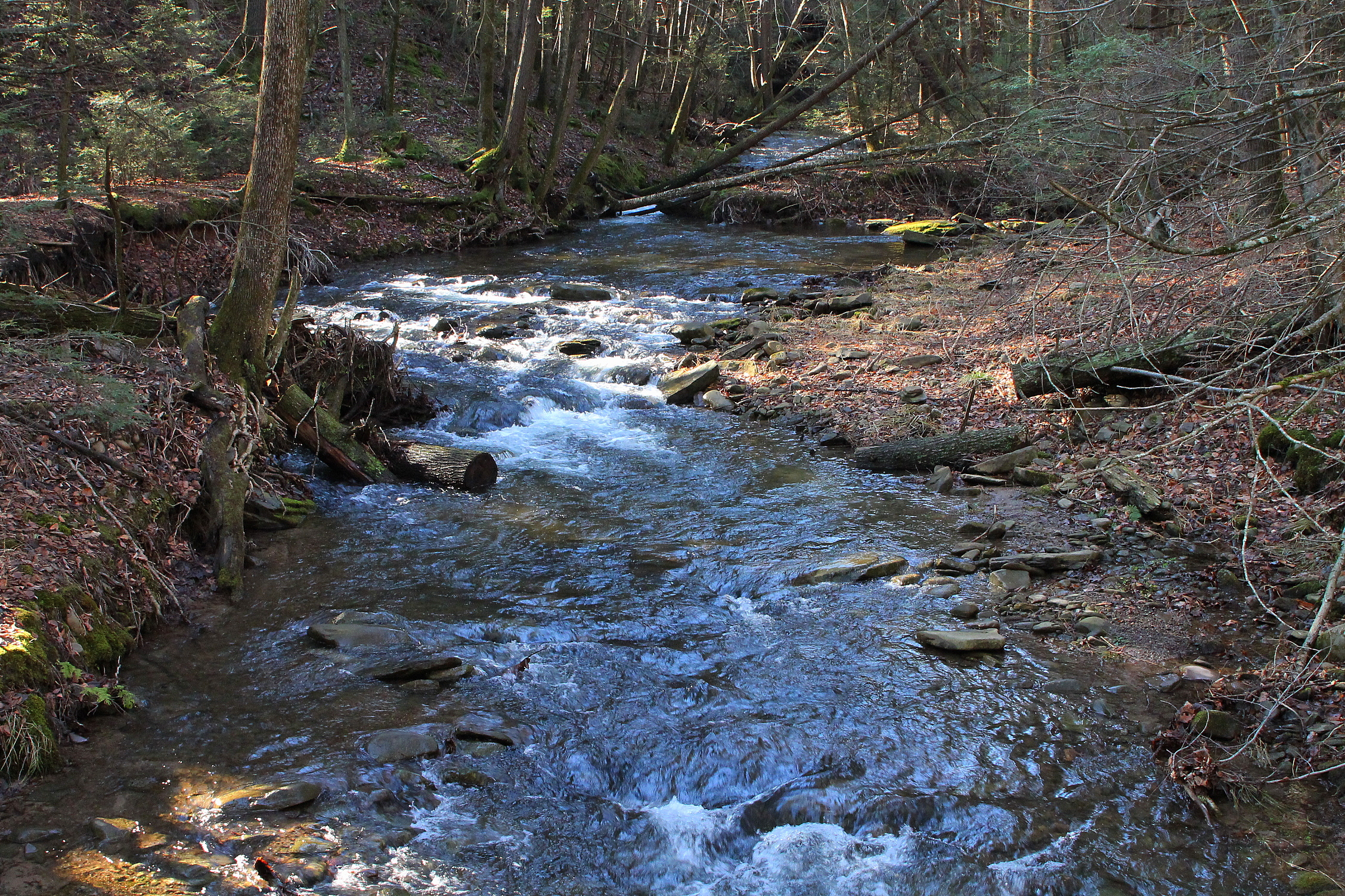 Arnold Creek, a headwater tributary of Huntington Creek looking upstream